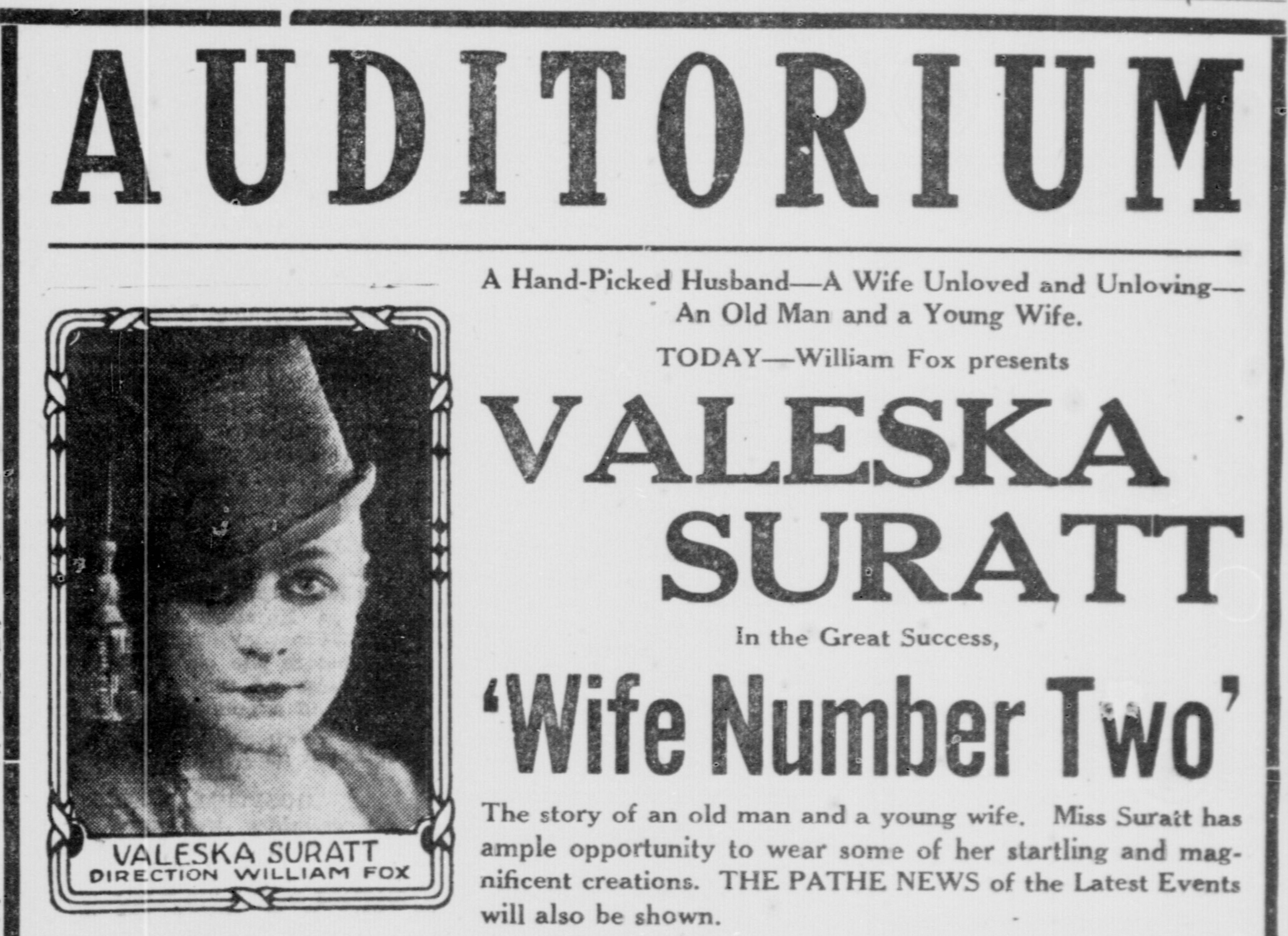 Wife Number Two newspaper advert